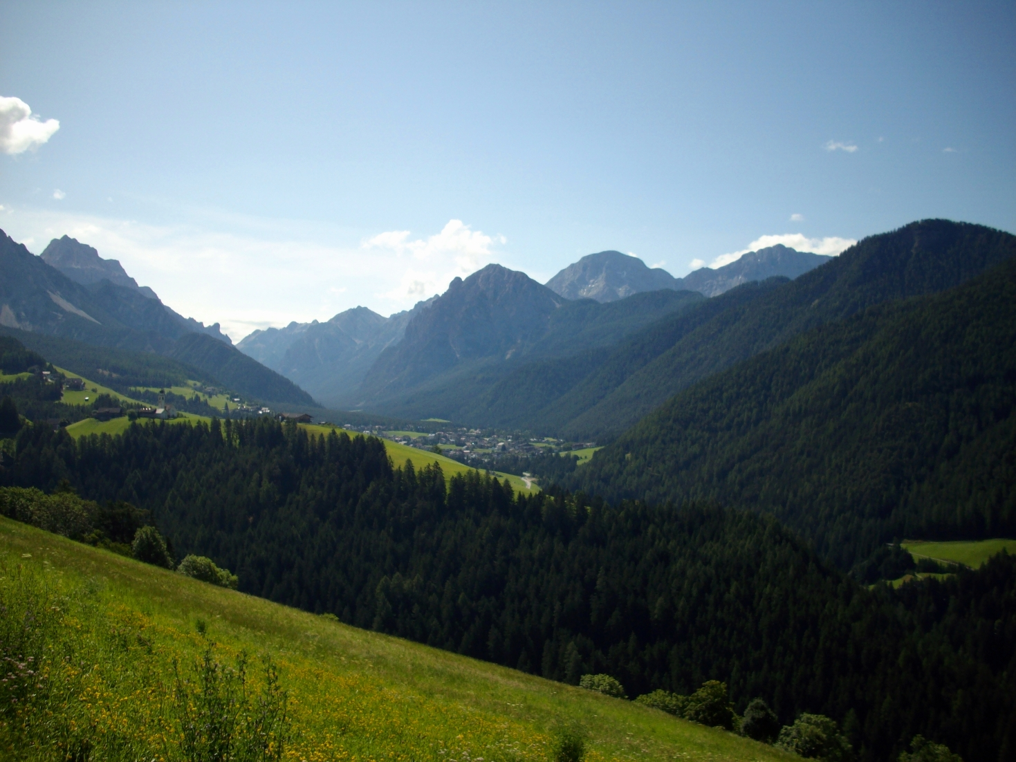 39030 Mareo, Province of Bolzano - South Tyrol, Italy